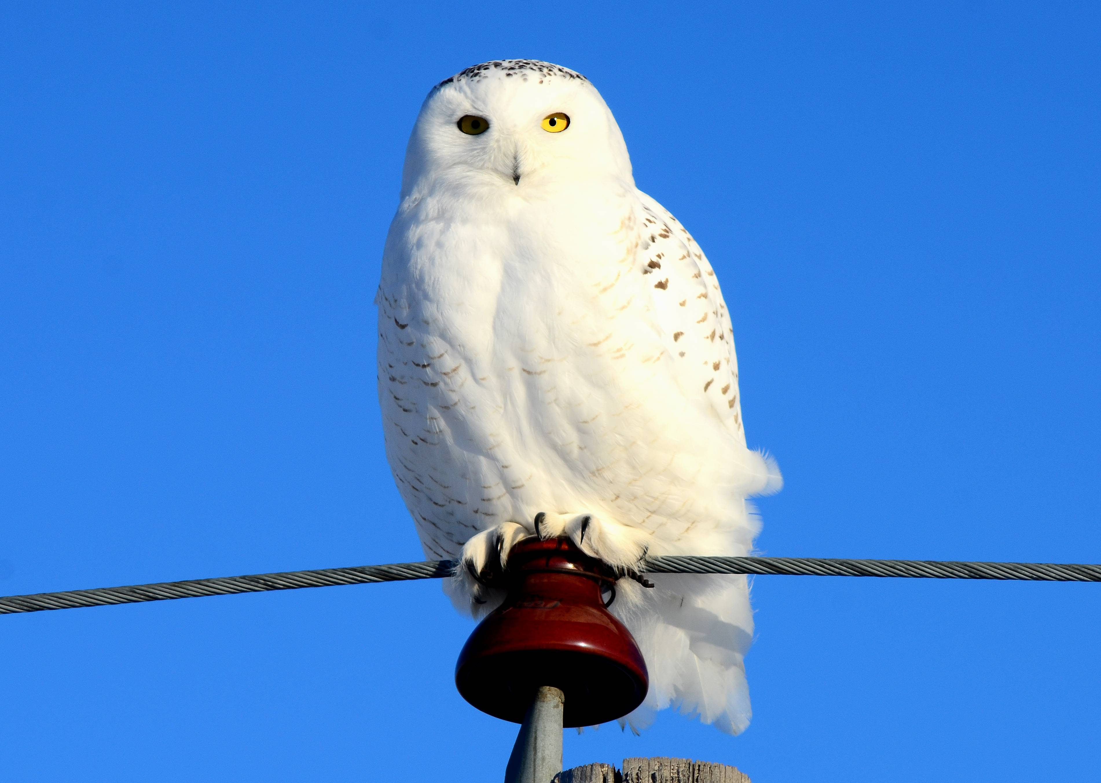 Photo Credit: Rick Bohn